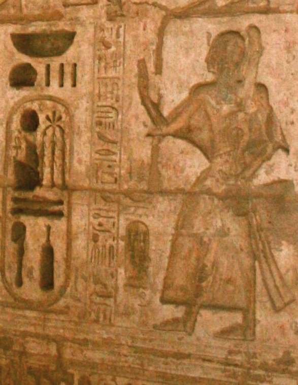 A relief of Prince Sethiherkhepeshef II, the future king Ramesses VIII - from the Mortuary Temple of Rameses III at Medinet Habu. Prince Sethiherkhepeshef II/Ramesses VIII was the last of Ramesses III's sons to ascend to the throne of Egypt during the New Kingdom.